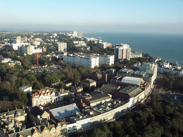 Bournemouth, Town Centre and East Cliff. from Tethered Balloon